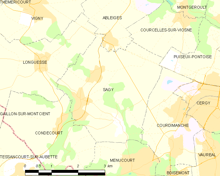 Map of French municipality Sagy